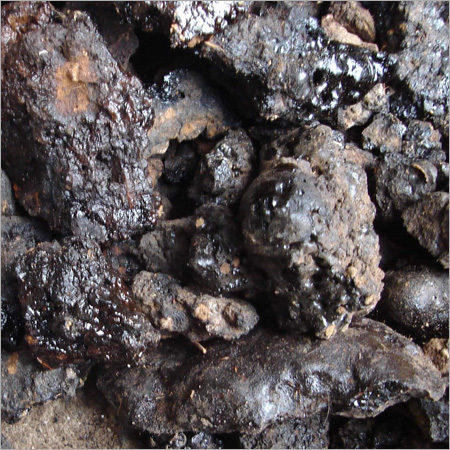 Shilajit is a blackish-brown exudation, of variable consistency, obtained from steep rocks of different formations found in the Himalayas